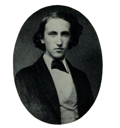 Photographic portrait of J. Willard Gibbs as a student, circa 1855.